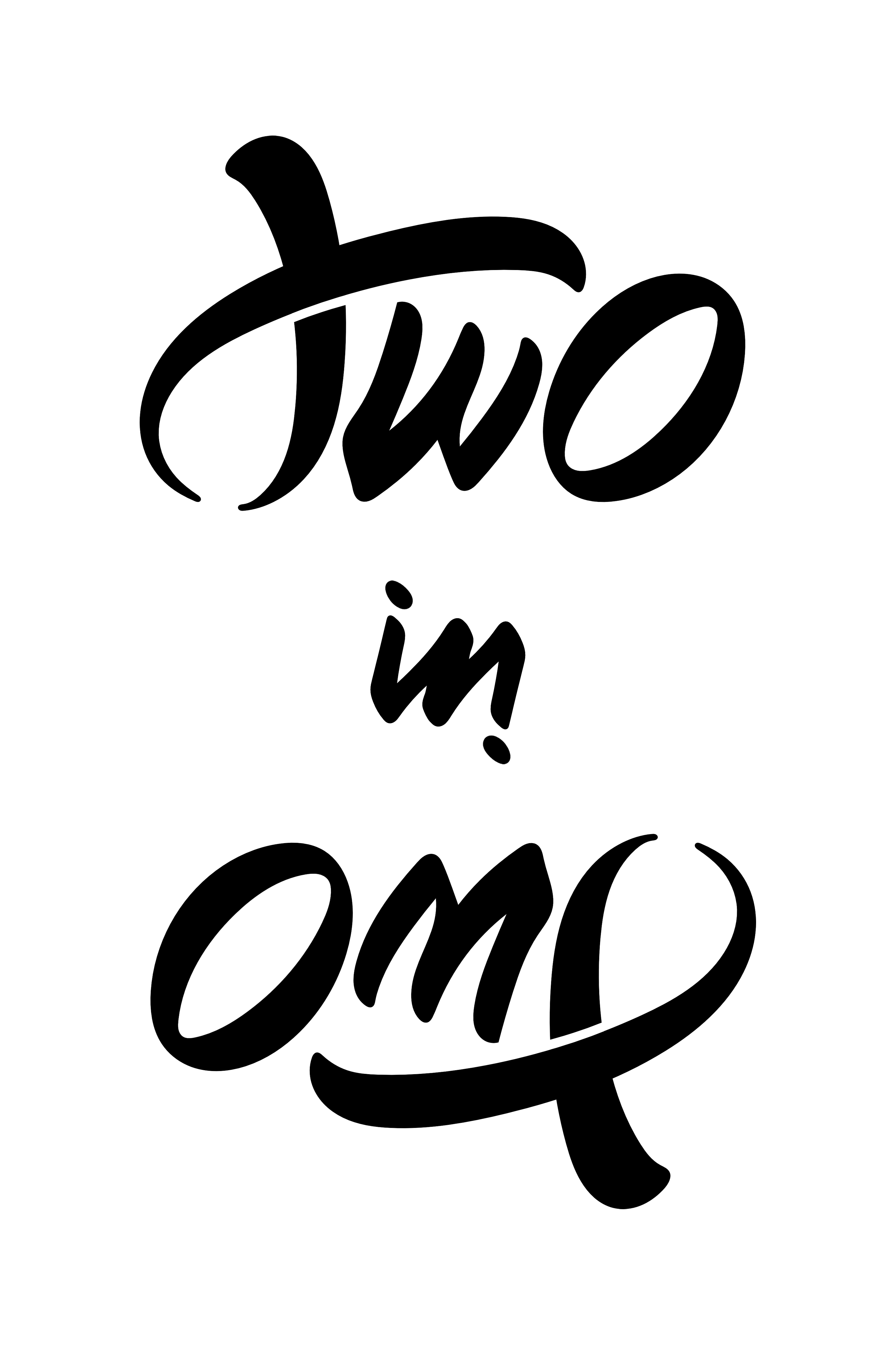 Ambigram Two in One, rotational symmetry of 180 degrees